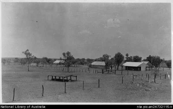 Moola Bulla, a government cattle station near Halls Creek Western Australia ca 1951